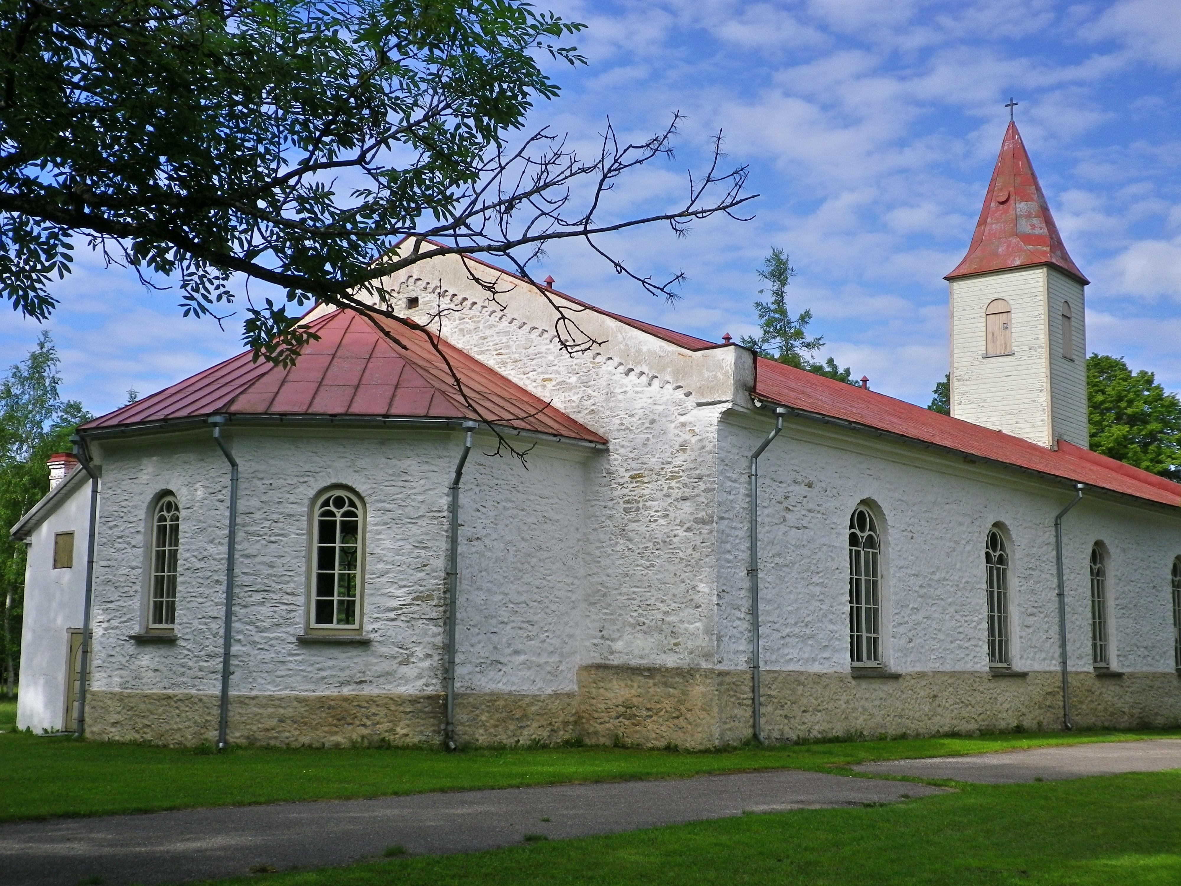 Kärdla Church, Hiiumaa